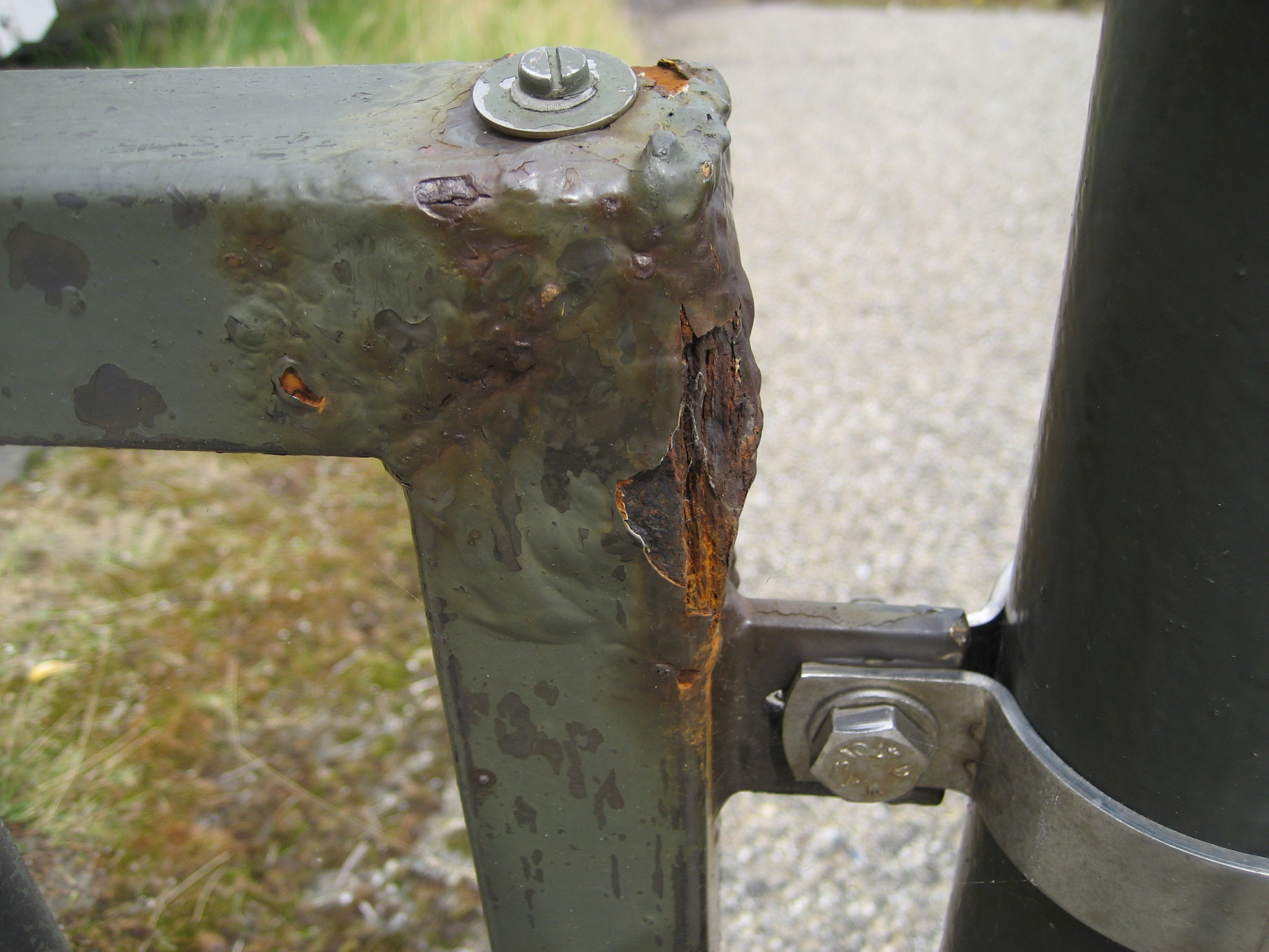 Corrosion under coating in handrail near the sea.